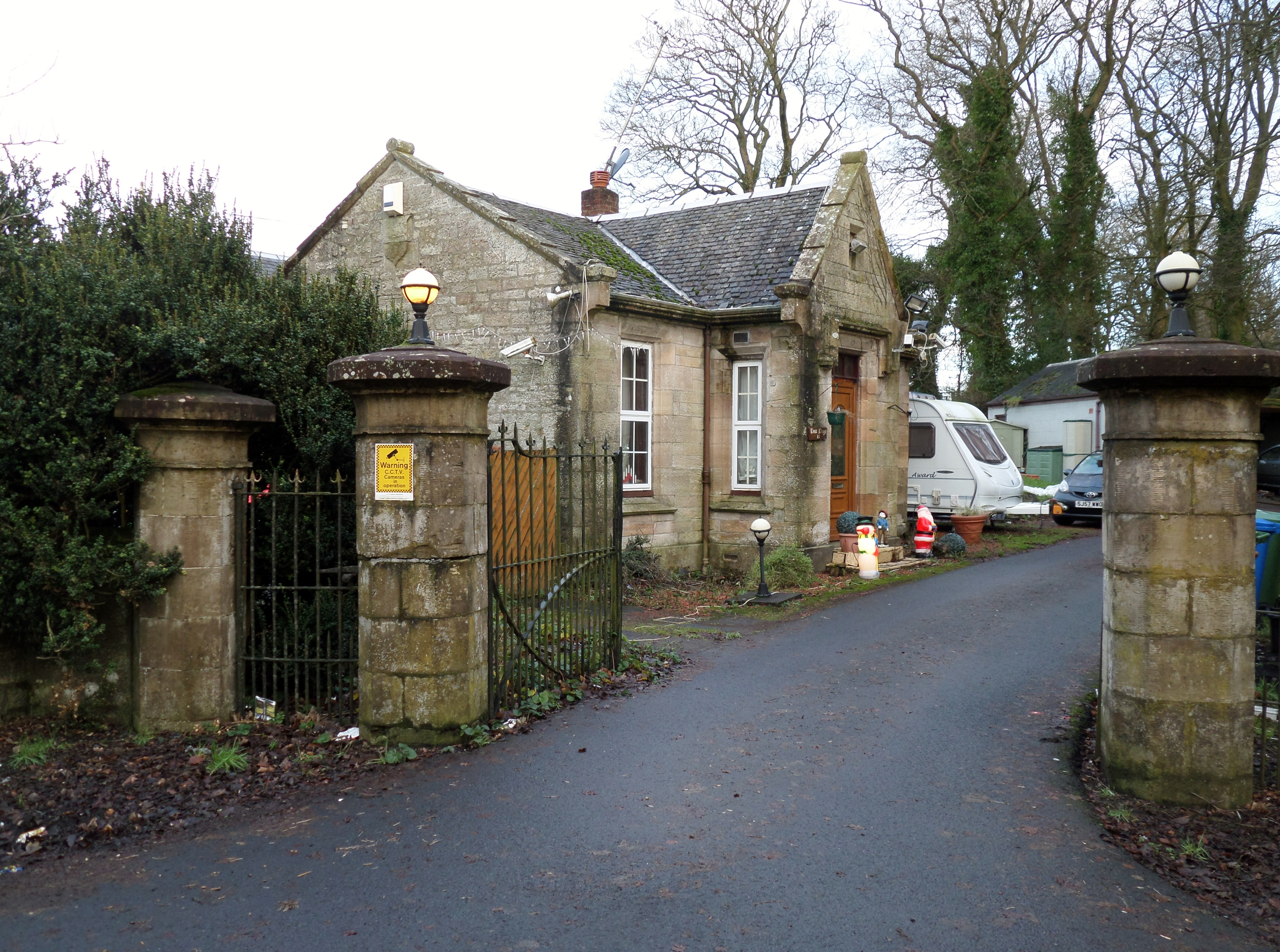 The Tour Gate Lodge, Kilmaurs, East Ayrshire, Scotland.